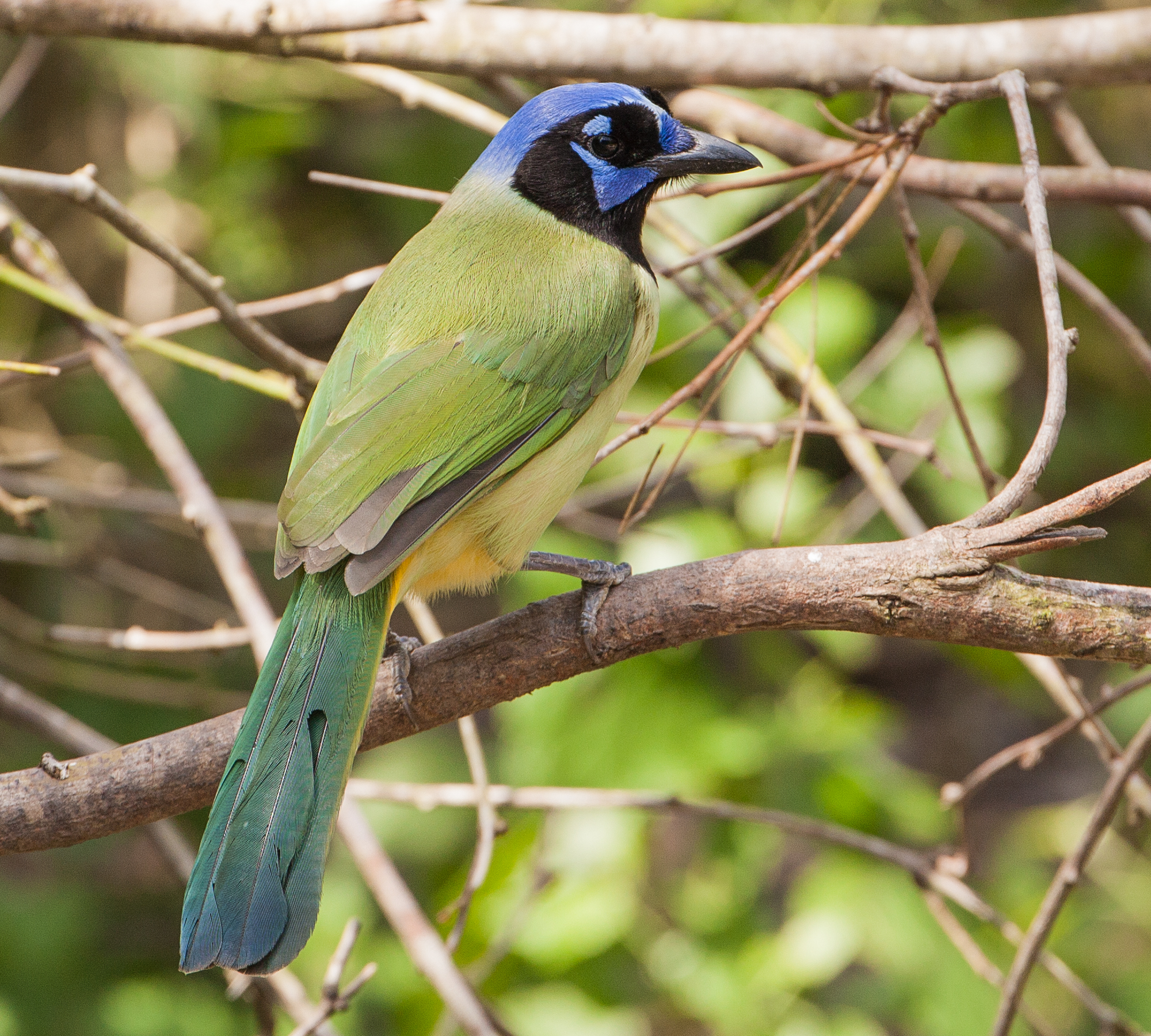 Green Jay, Laguna Astascosa National Wildlife Refuge, Texas